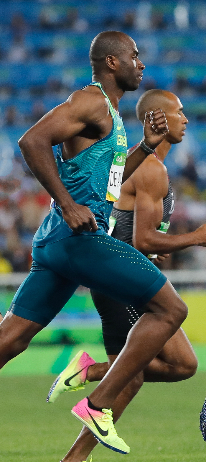 Rio de Janeiro - Brasileiro Luiz Alberto de Araújo corre 1500m no decatlo nos Jogos Rio 2016, no Estádio Olímpico, e termina competição em 10º. (Fernando Frazão/Agência Brasil)